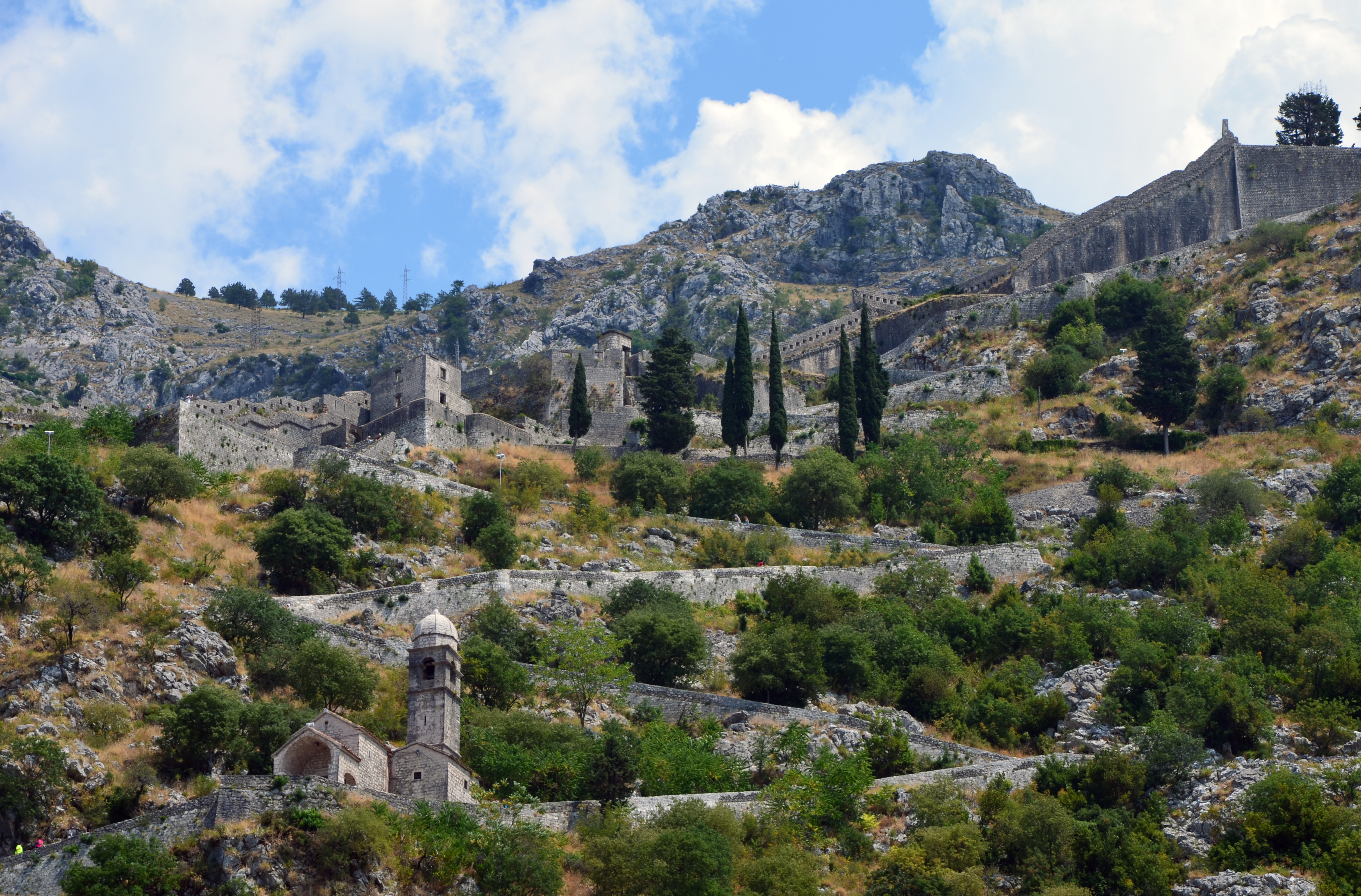 Kotor's fortress and St-John's castle (Montenegro) viewed from the old town.